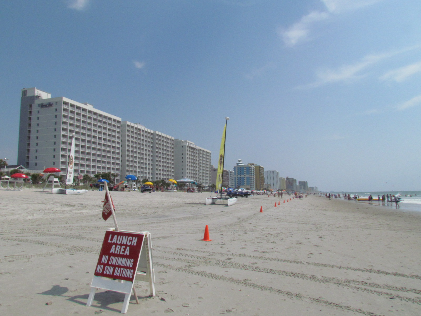 Hotels in Myrtle Beach. Foreground: the boat launch area.